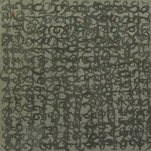 "Gestrickte Unendlichkeit". Painting by Martina Schettina 2008, 50 x 50 cm, Adrylic on canvas.